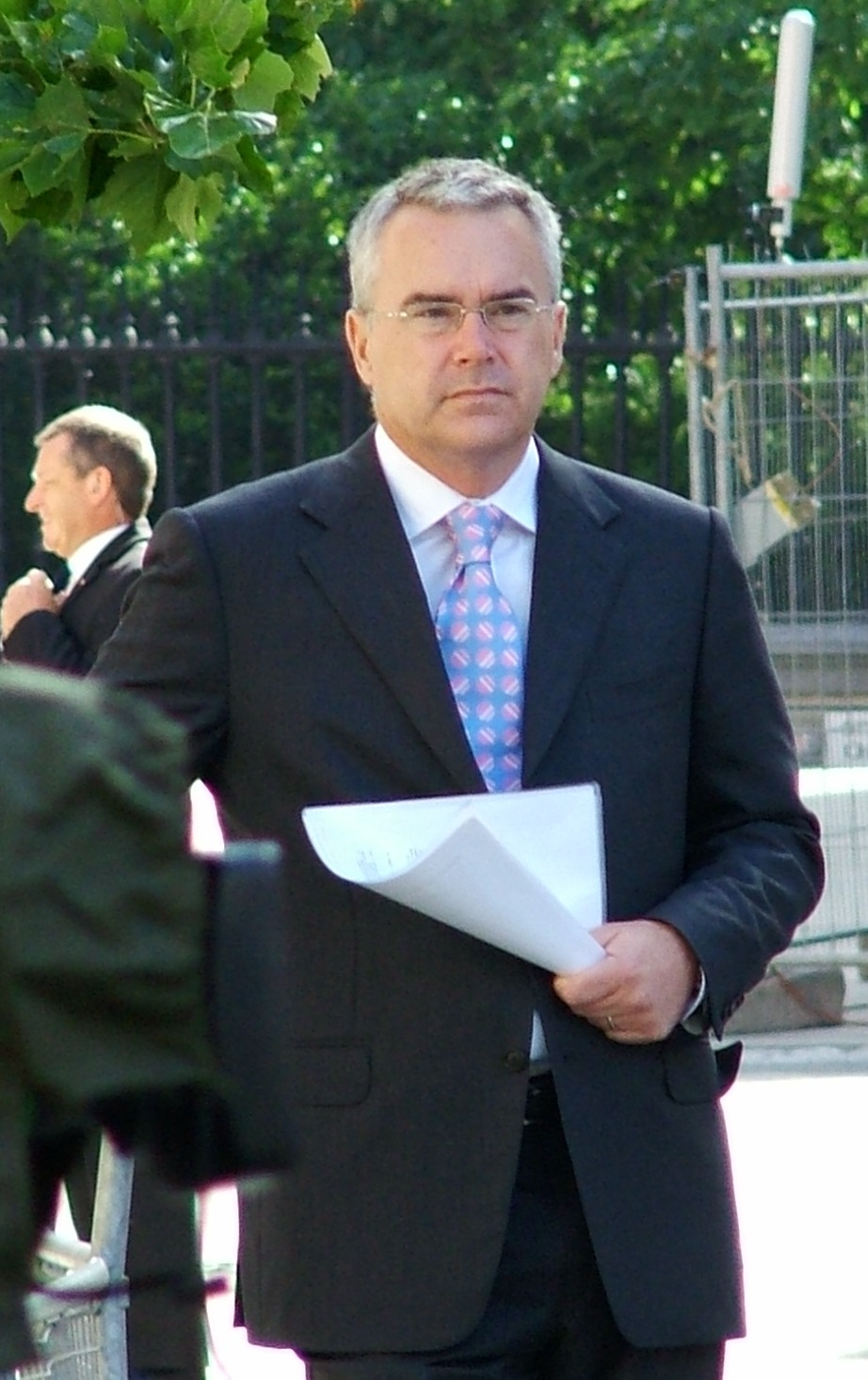 Huw Edwards during an outside broadcast for BBC News for the Thanksgiving Service at St Paul's Cathedral for the 80th birthday of Elizabeth II of the United Kingdom.